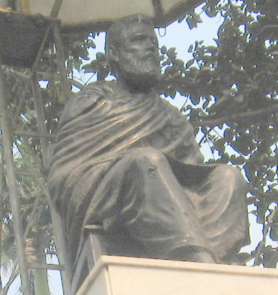 Statue of Utkalmani Pandit Gopabandhu Das on Lenin Sarani, Kolkata